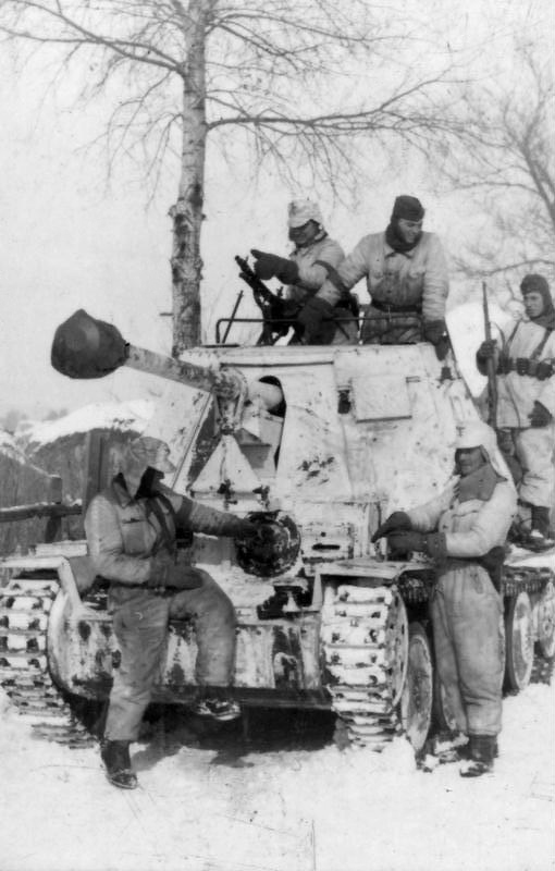 3rd Battle of Kharkov, February 1943. Men of 1 Panzer Regiment of the Waffen-SS Division "Leibstandarte-SS Adolf Hitler" with a Marder III tank destroyer and infantry in snow camouflage overalls